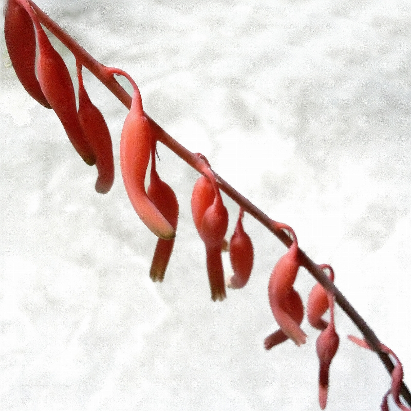 Gasteria armstrongii flower